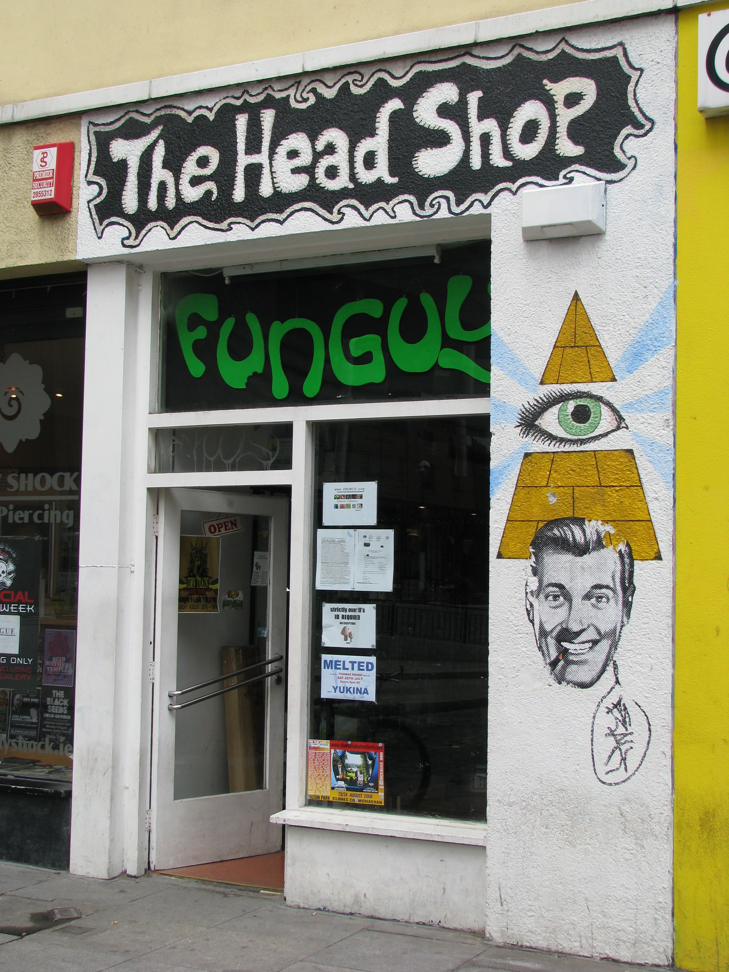 Featuring J. R. "Bob" Dobbs!